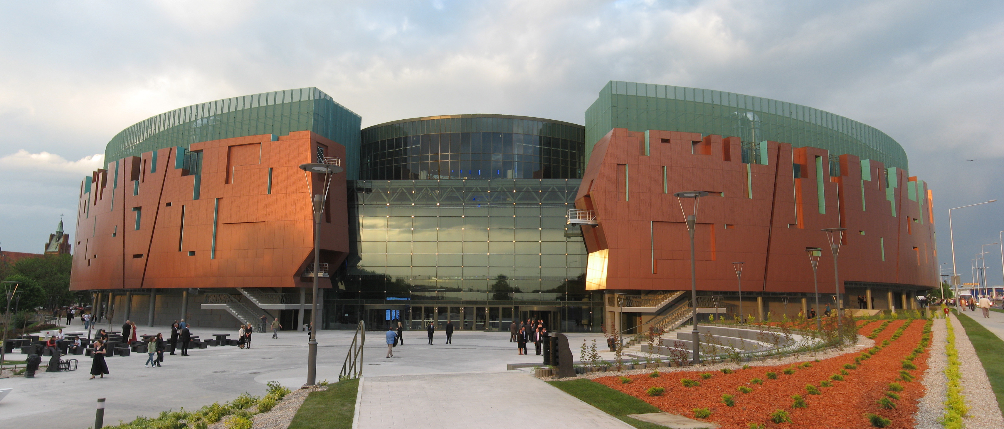 Shopping centre Cuprum Arena - Lubin, Poland.